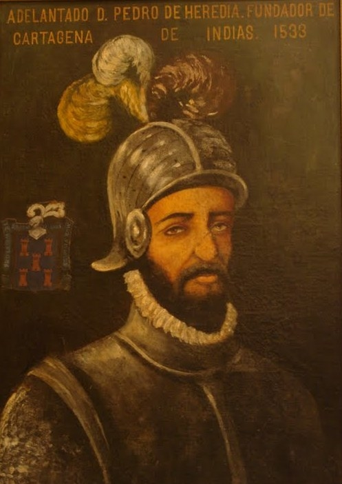 Portrait of the Spanish conquistador Pedro de Heredia in the Museo Histórico de Cartagena y el Museo del Oro, Cartagena de Indias, Colombia